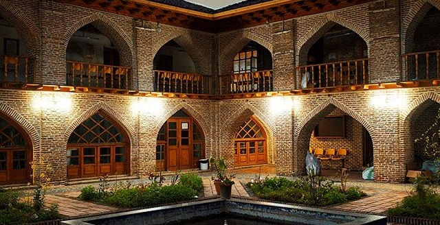 Musque Agha Abbas at Amol